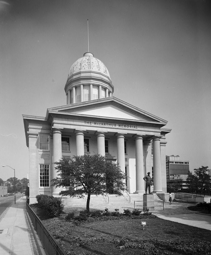 Norfolk City Hall & Courthouse, 421 East City Hall Avenue, (Norfolk city, Virginia) MacArthur Memorial, HABS VA,65-NORF,10-1